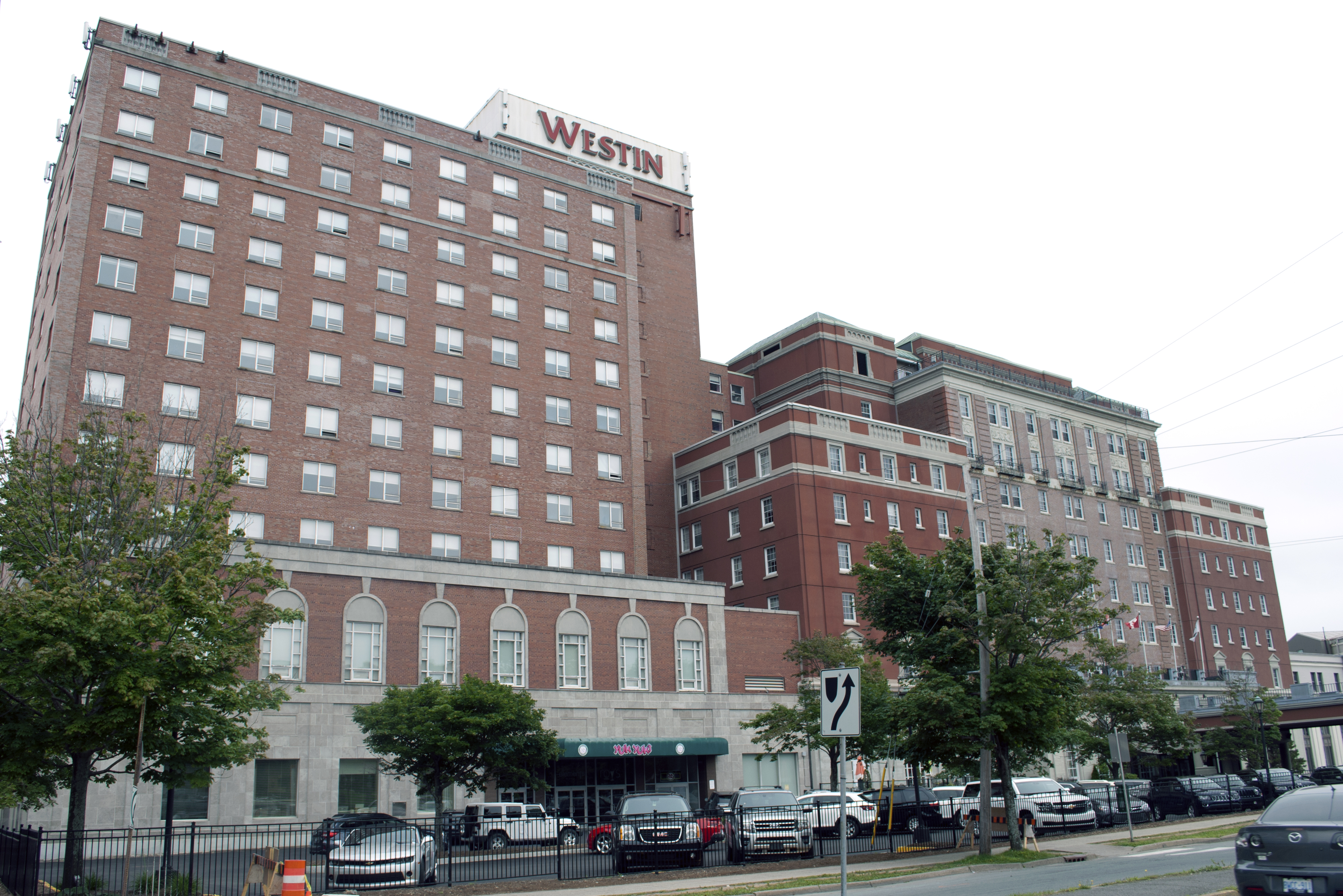 Westin Nova Scotian hotel.